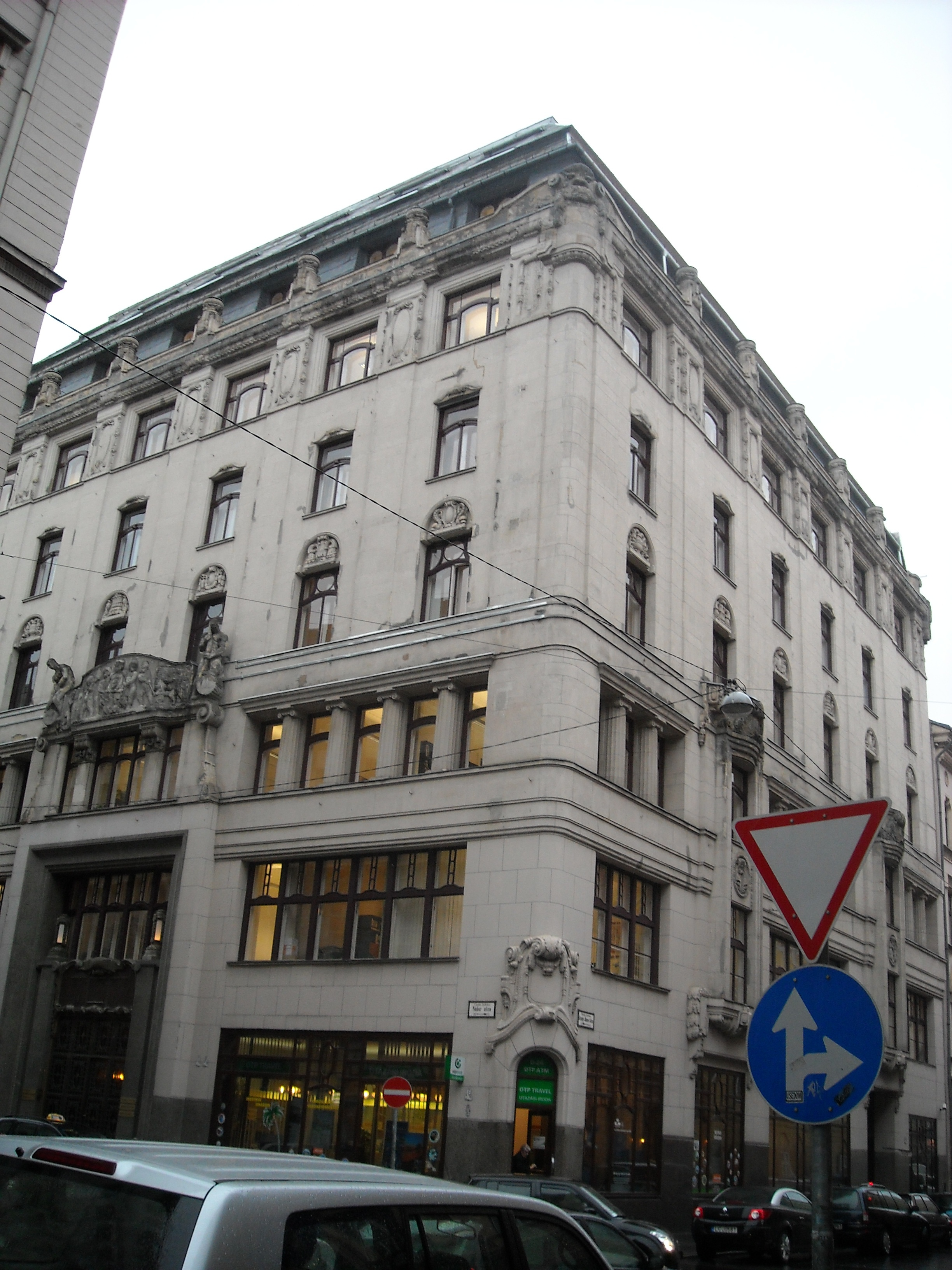 Nádor utca 21, Budapest. Architects: Sámuel Révész és József Kollár This is a photo of a monument in Hungary. Identifier: 566